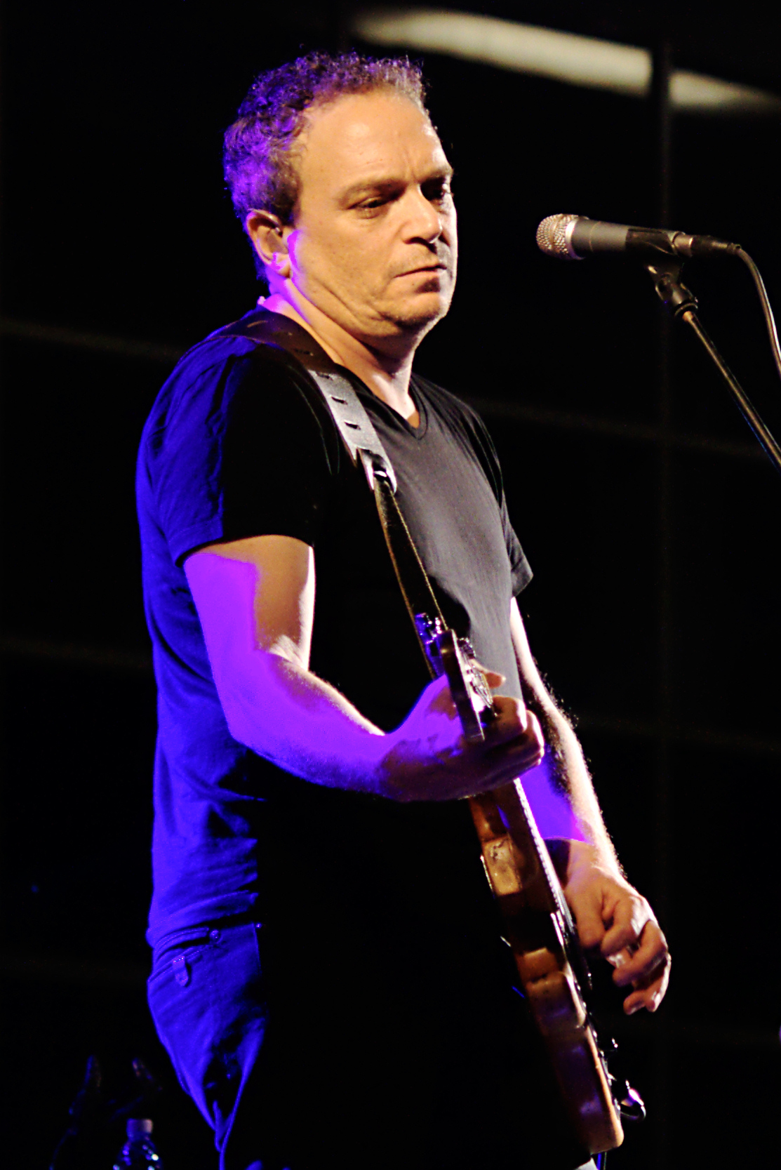 Tislam member, Izhar Ashdot.